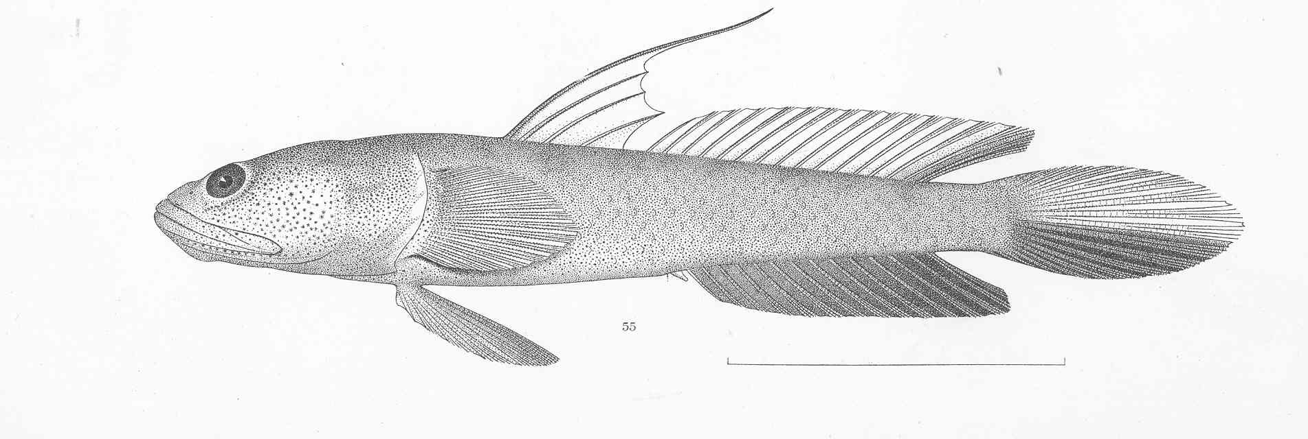 Evermannia panamensis Gilbert & Starks. Type specimen; Panama Subject: Gobiidae, Evermannia Tag: Fish